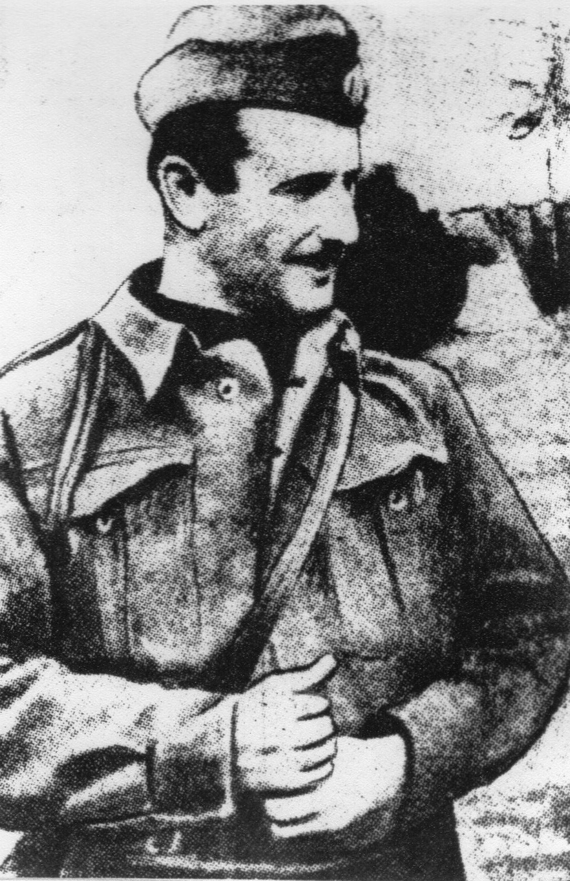 General Markos Vafiadis This media file is produced by Wikipedian in Residence in Category:Wikipedian in Residence at DARM in 2016.